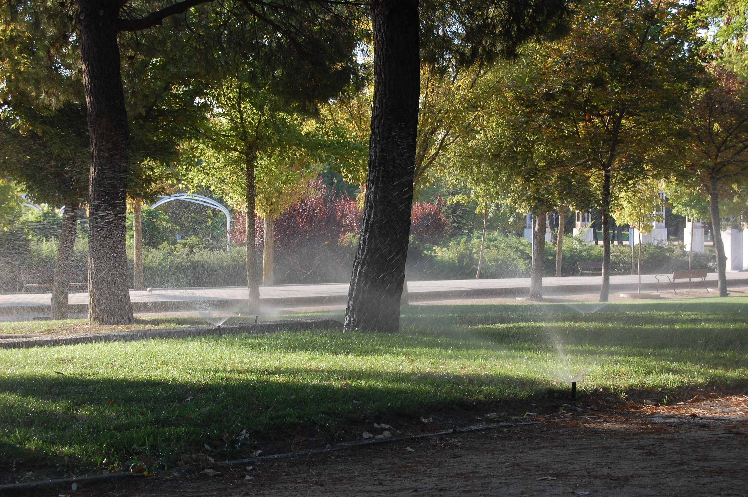 Watering in Pradolongo Park